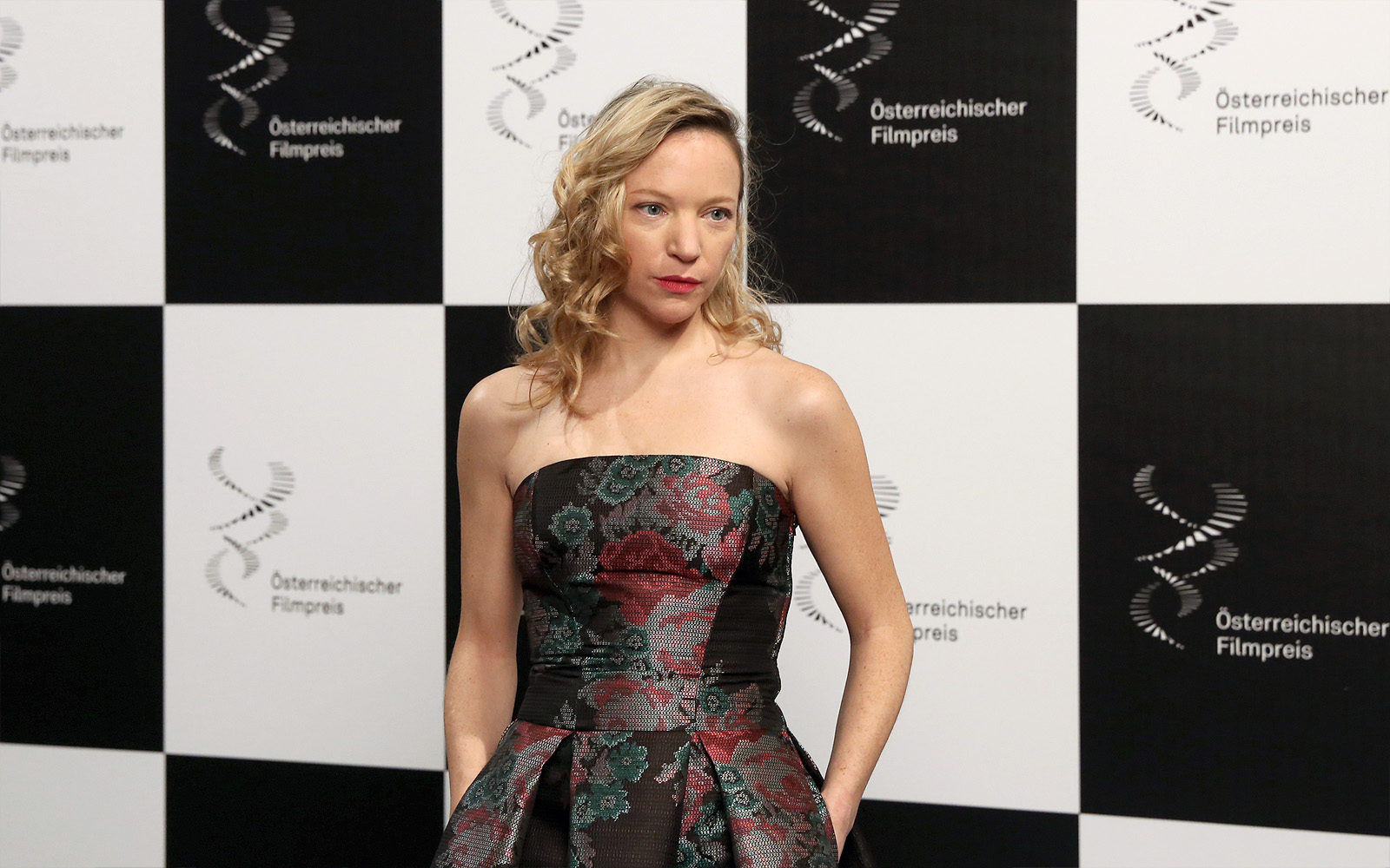 Natalie Press, nominee for best actress ("Where I Belong"), at the Austrian Film Awards 2014 (Grafenegg, Austria).